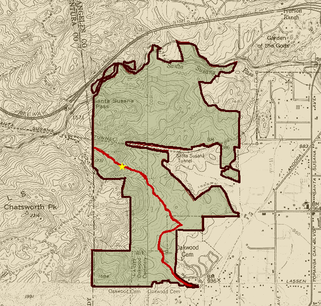 Map of Santa Susana Pass State Historic Park near Chatsworth, California. The park includes the Old Santa Susana Stage Road (in red), a 174-acre National Register of Historic Places property which is also a Ventura County Historical Landmark #104 and Los Angeles City Historic-Cultural Monument #92 (under the name Old Stagecoach Trail). The star marks the historic plaque for the stage road. Map based on park map at California Department of Parks and Recreation Santa Susana Pass State Historic Park Preliminary General Plan/Draft EIR